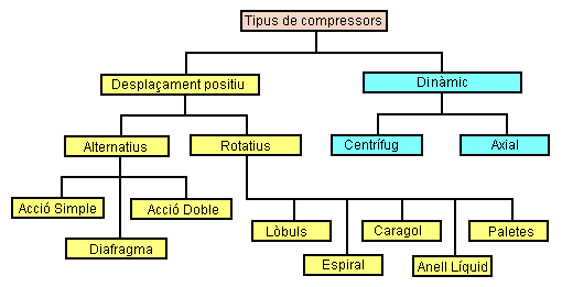 Diagram of various types of gas compressors.